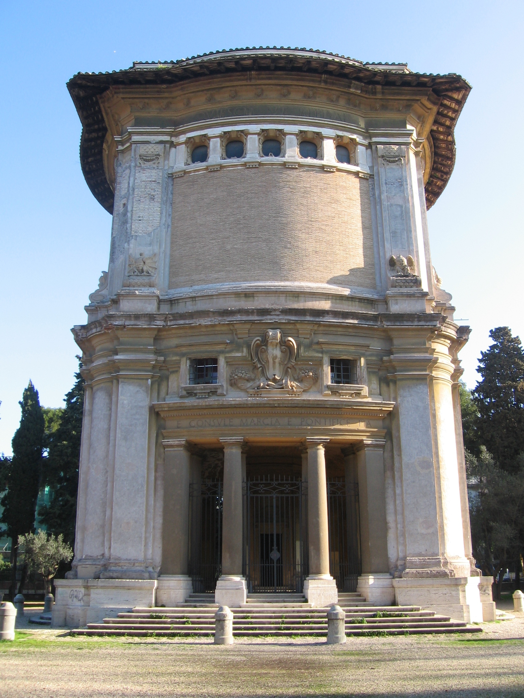 Raffaele De Vico - Water tank in Parco dei daini (Villa Borghese) - Roma